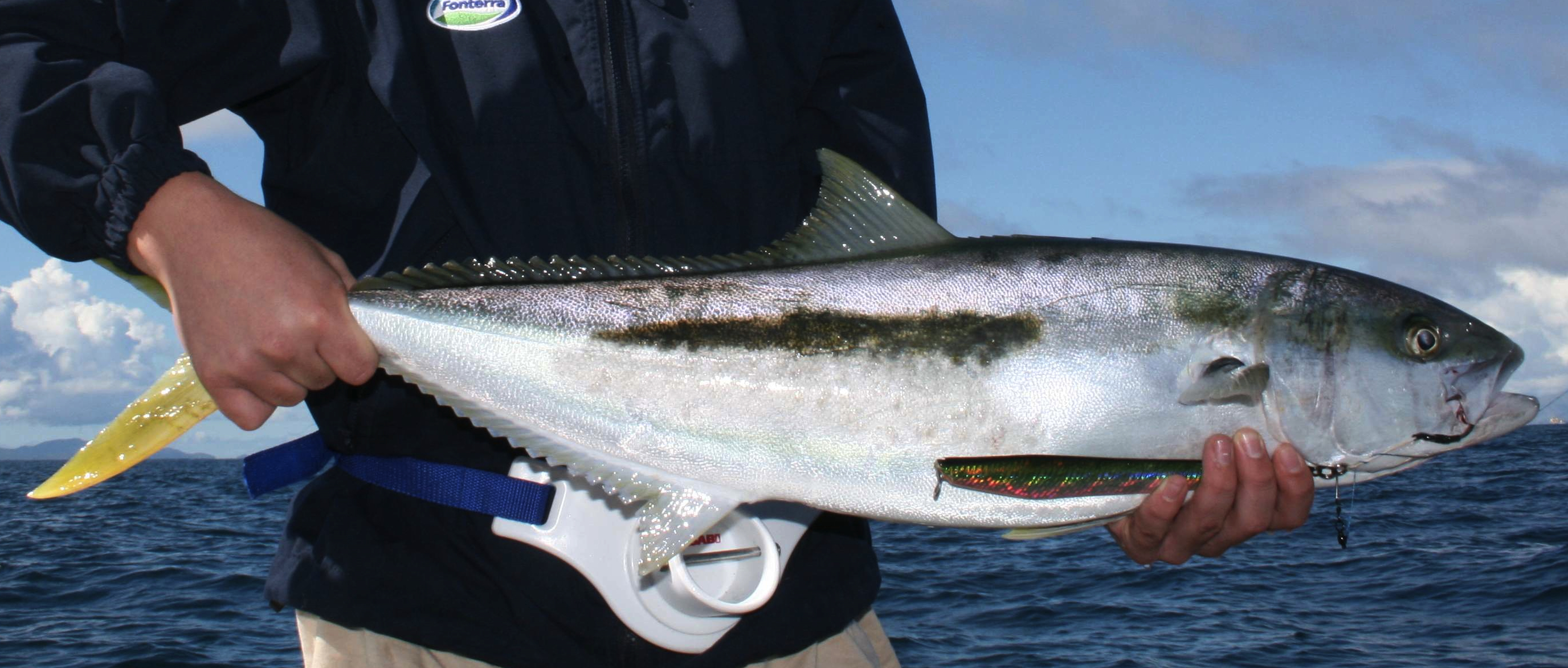 Yellowtail Kingfish caught (and released) in the Hauraki Gulf close to Auckland, New Zealand. This fish is below legal size in New Zealand